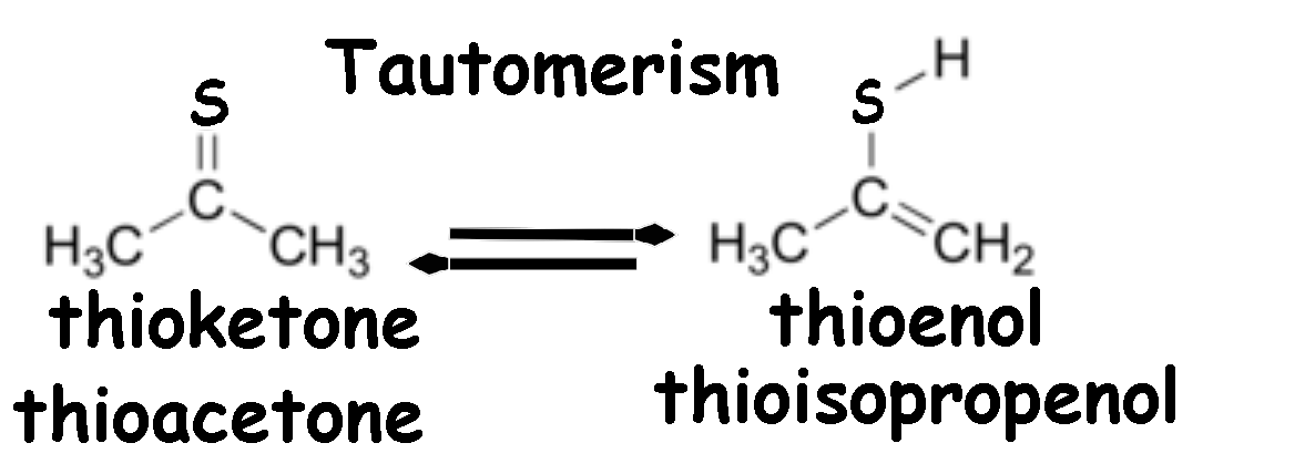 Tautomerism inter a thioacetone and a thioenol